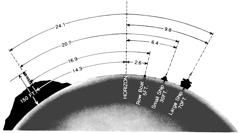 figure 407c of APN2002